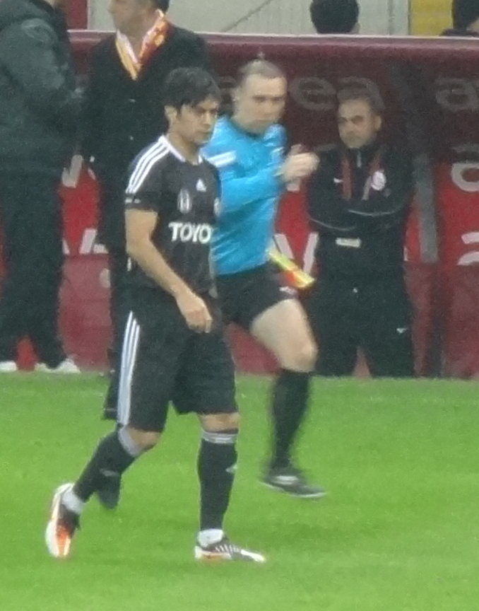 Toraman for BJK - GS